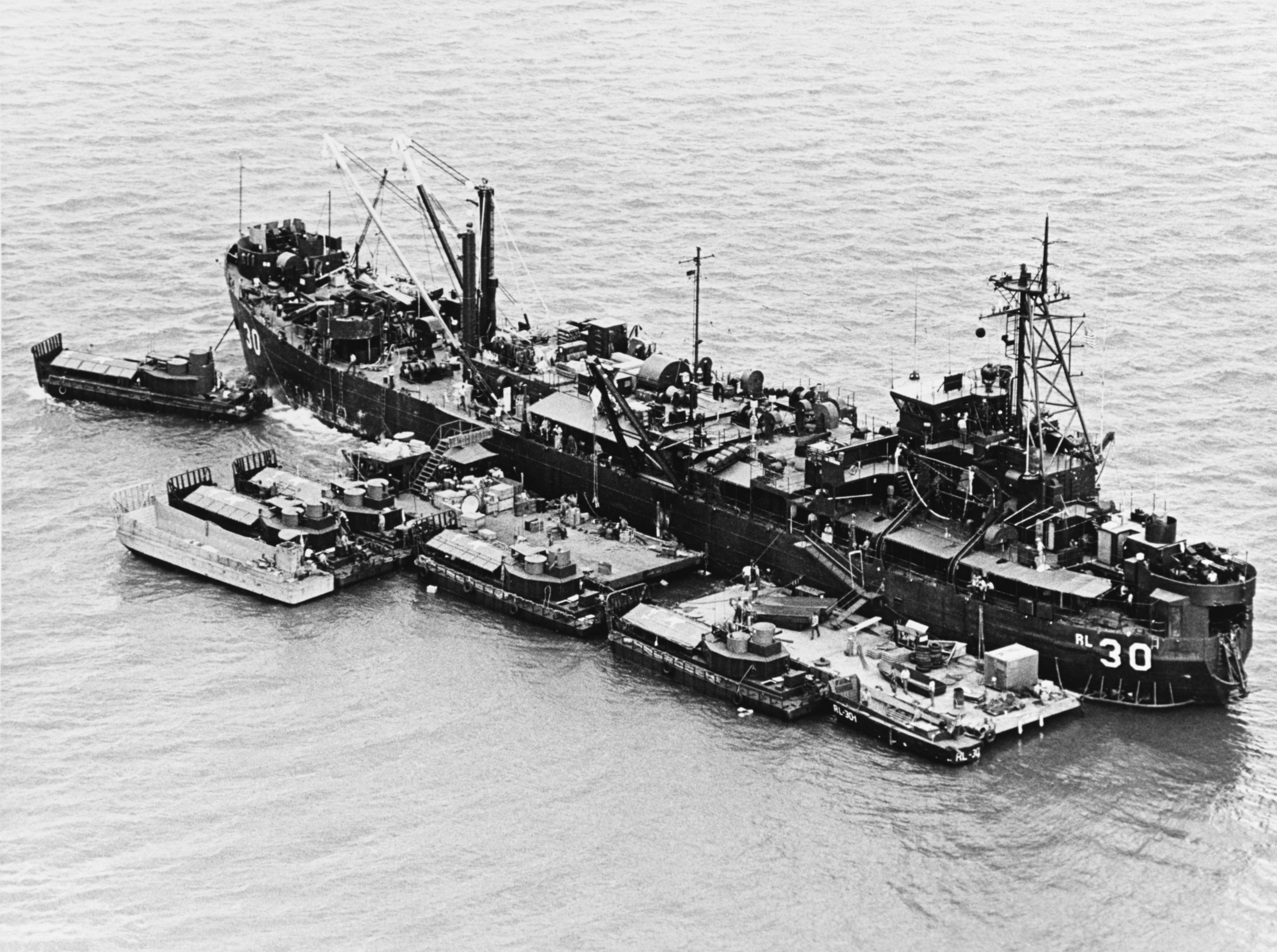 The U.S. Navy landing craft repair ship USS Askari (ARL-30), one of the mobile bases of the River Assault Flotilla, in May 1967, servicing four armored troop carriers (ATCs) while a fifth ATC clears her side. Also moored to the pontoons alongside the repair ship is one of her LCVPs. Note the booms, forward, and the A-frame amidships. The ship is painted green, reflecting her assignment to the "Brown Water Navy."